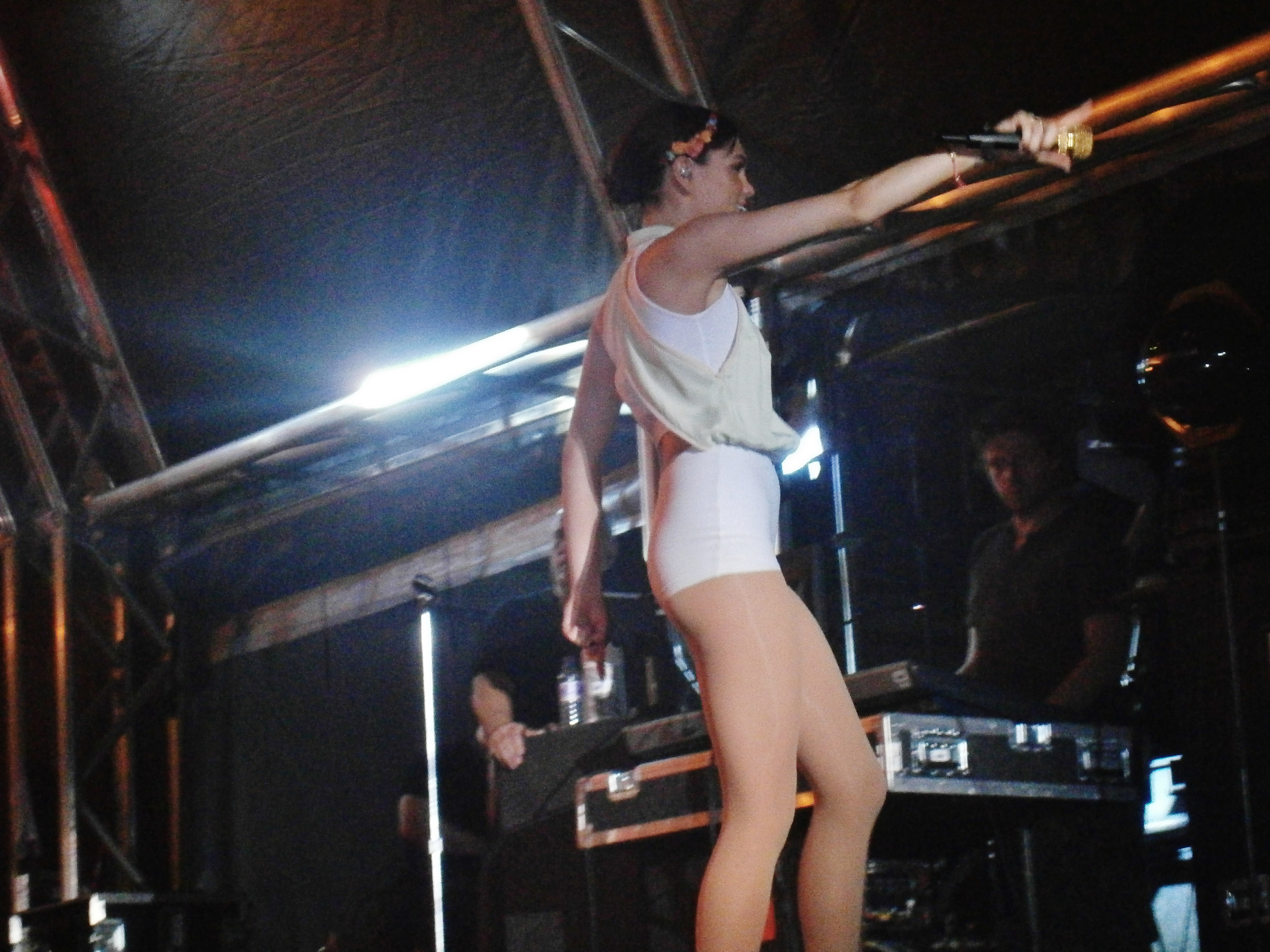 Jessie J in the Gibraltar Music Festival (08.09.12)